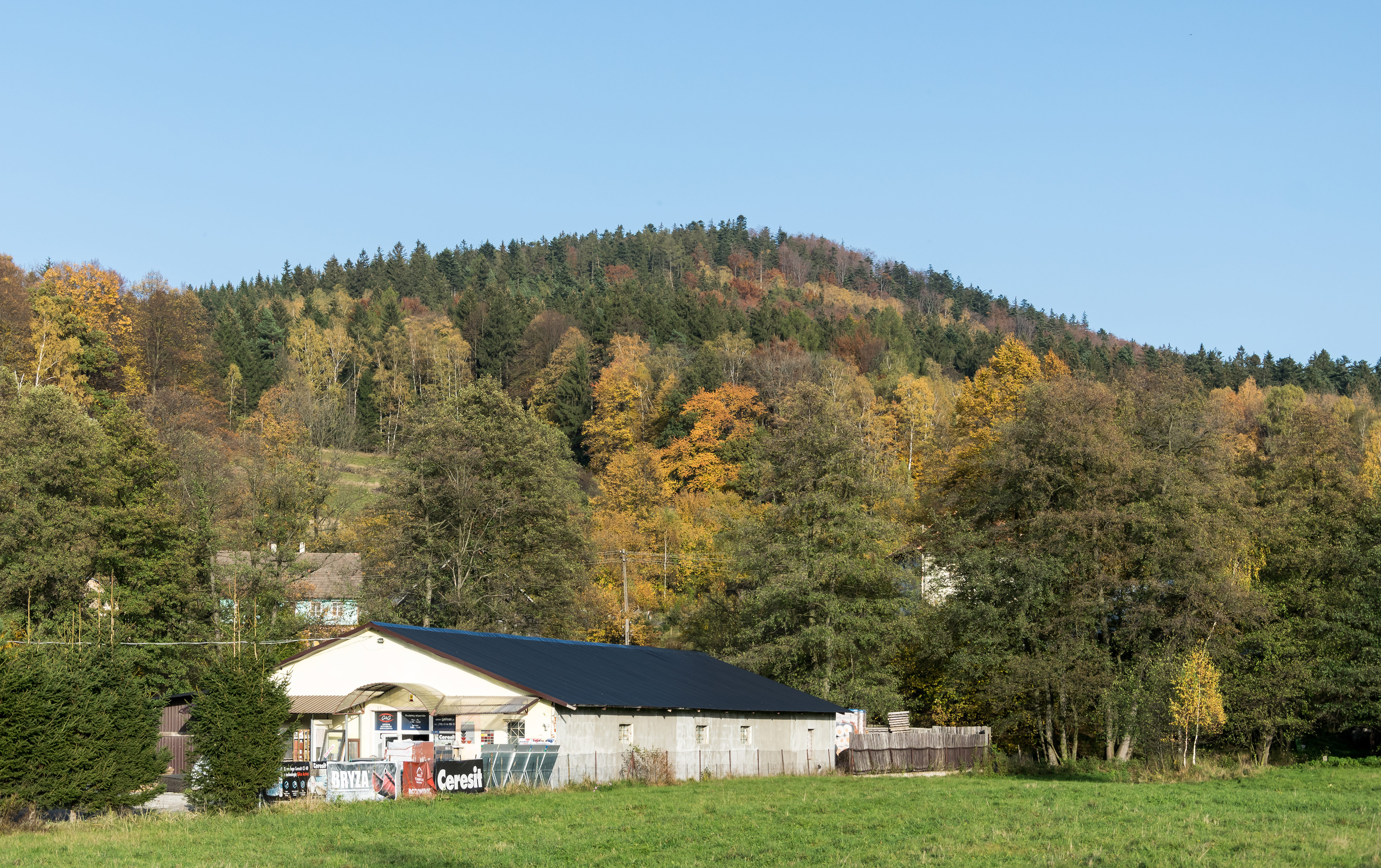 Kłóbka, Góry Złote, Sudetes. Exposure from Stary Gierałtów